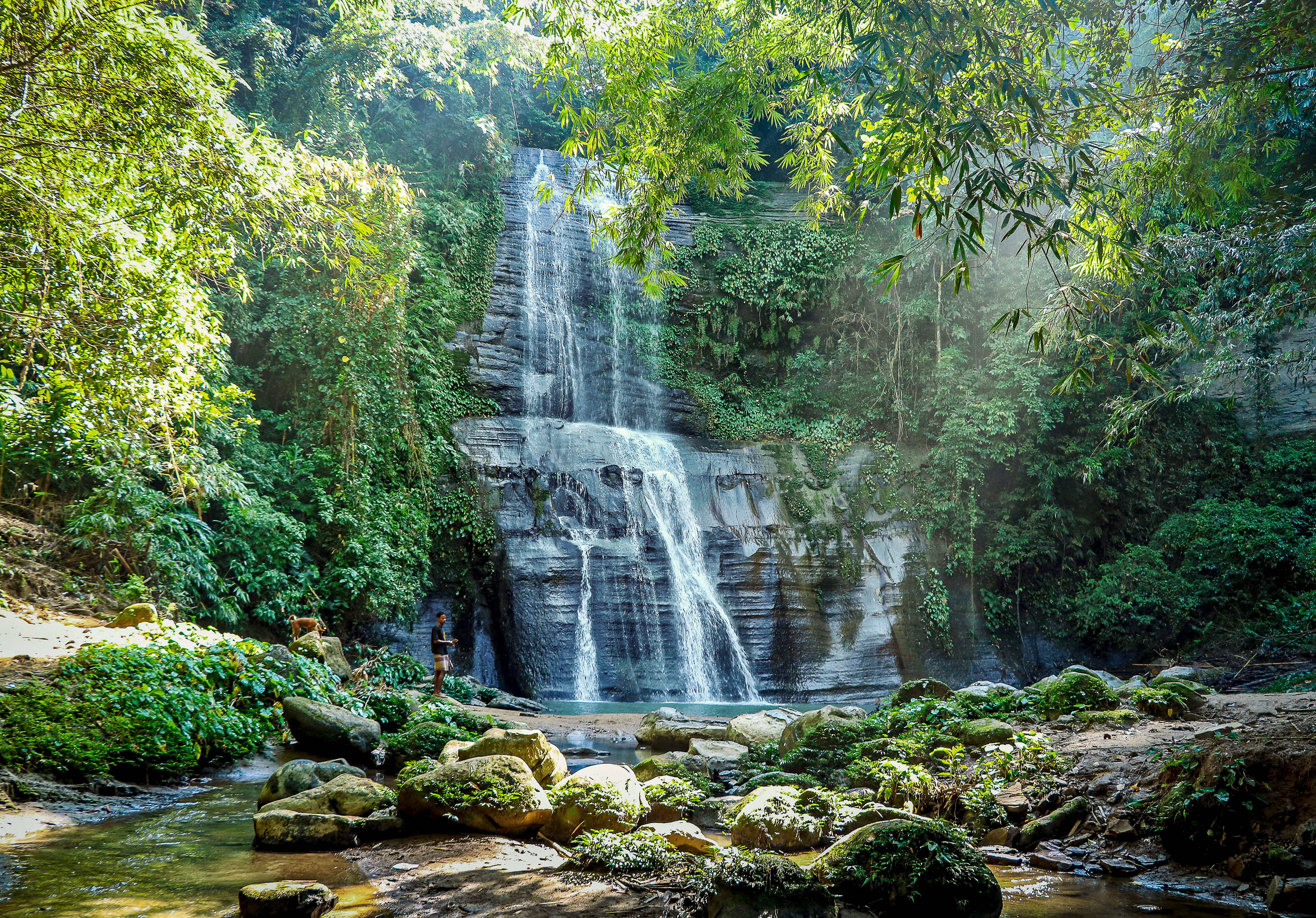 HamHam waterfalls, Sylhet, Bangladesh